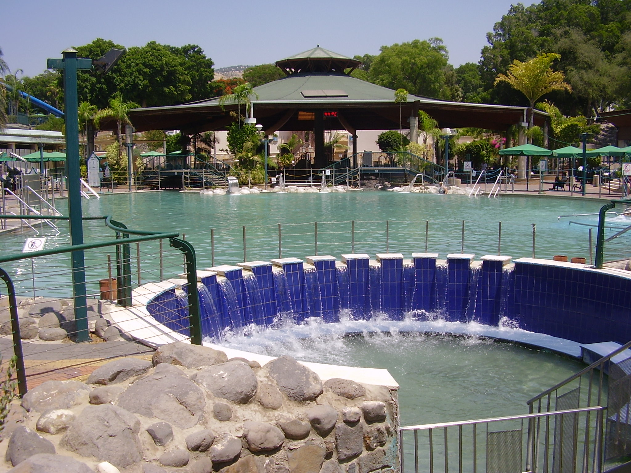 Hamat Gader Resort